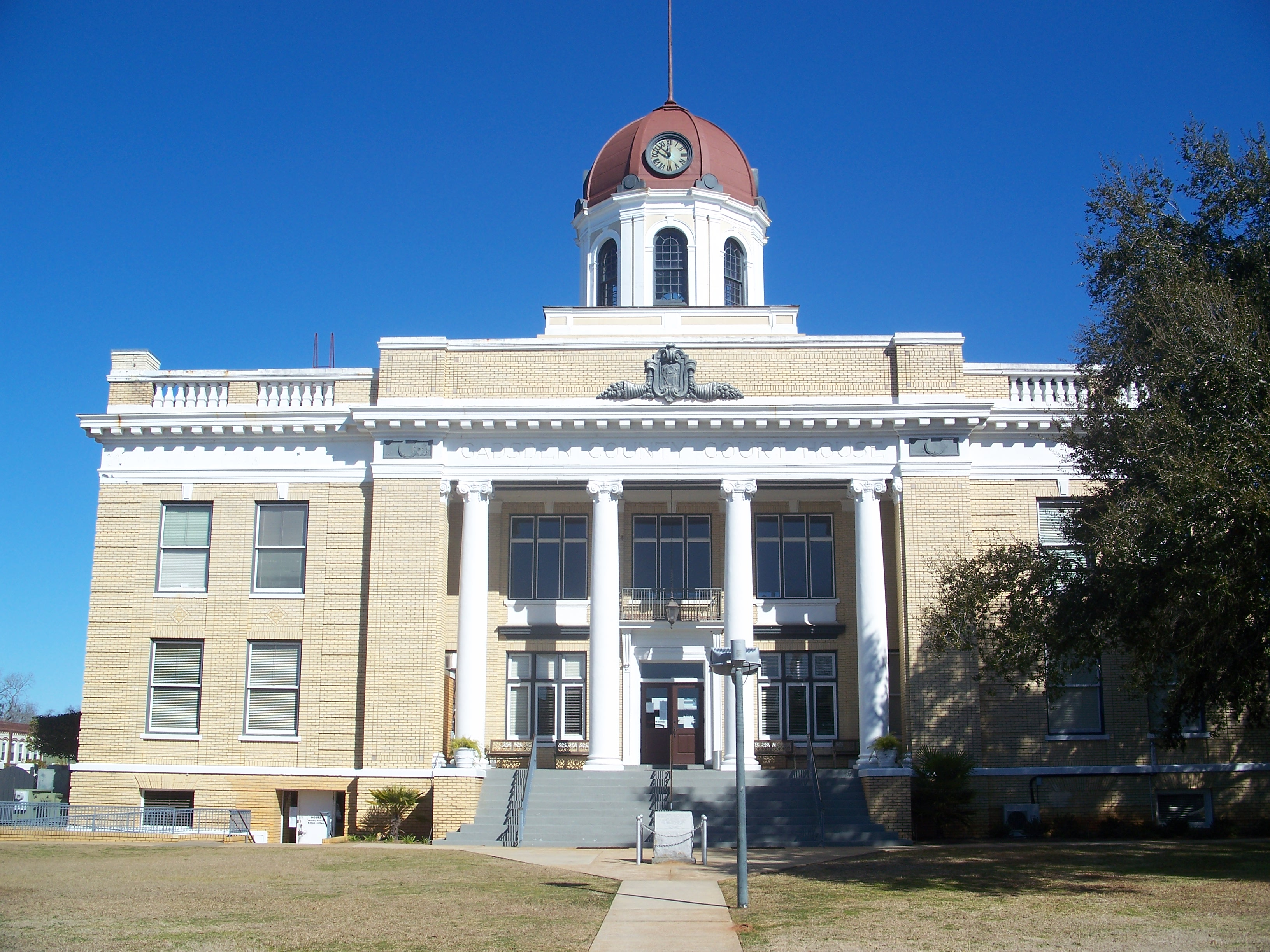 Quincy, Florida: Gadsden County Courthouse